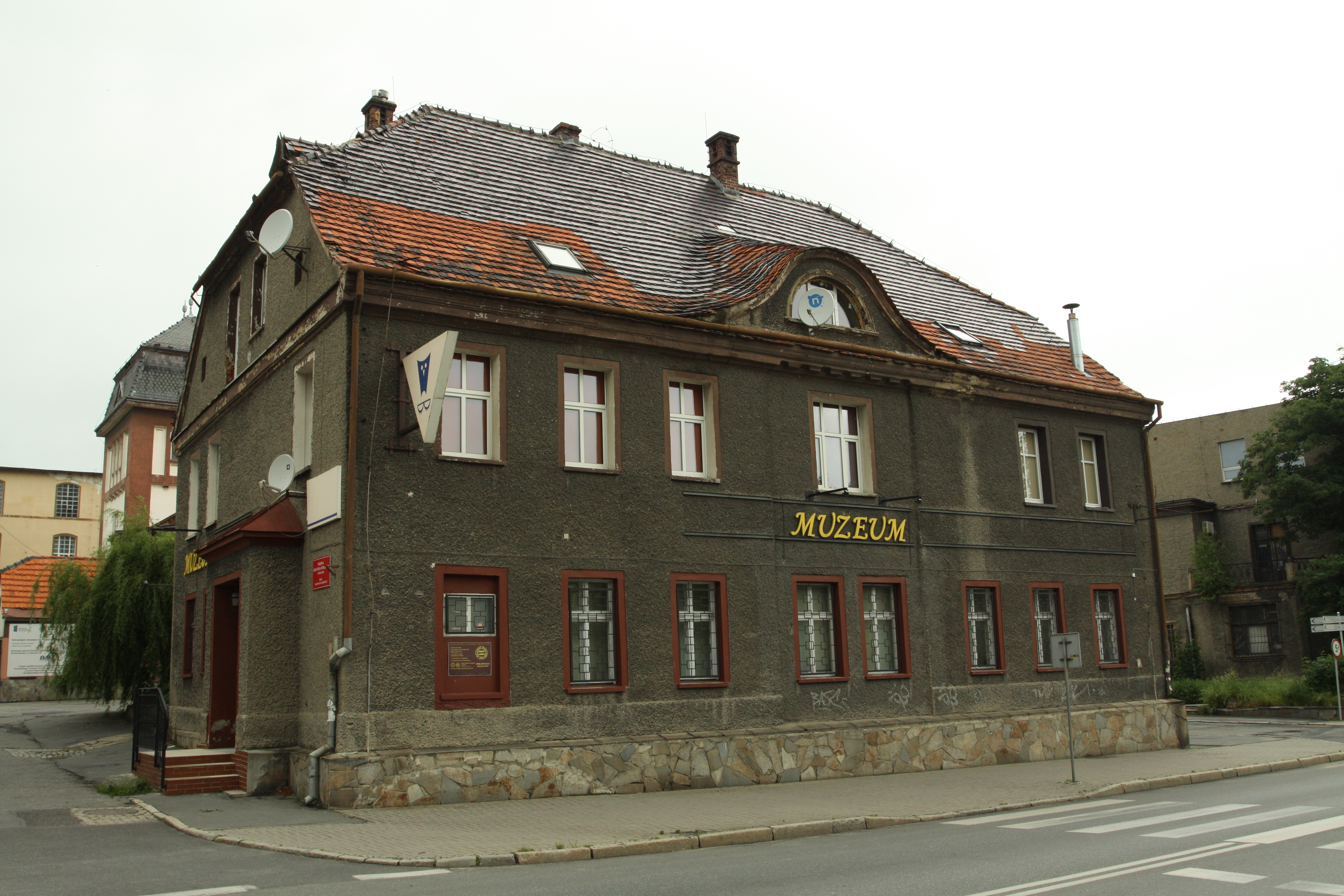 Bielawa, a town in south-western Poland situated in Dzierżoniów County, Lower Silesian Voivodeship - Google Maps - Google Earth